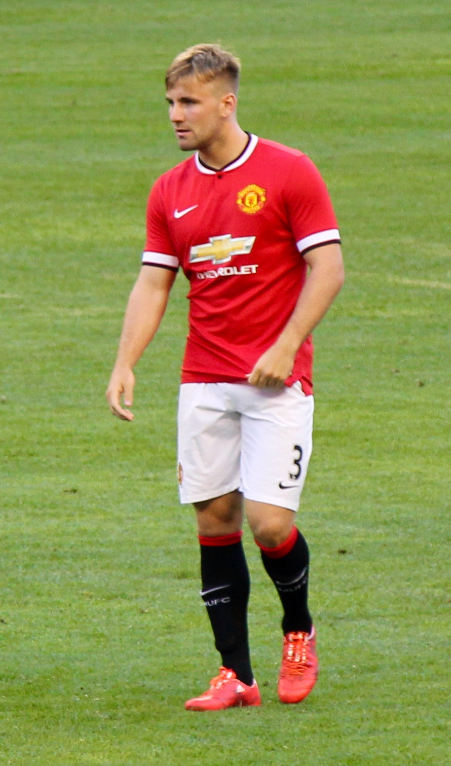 Ashley Young, Morgan Schneiderlin and Luke Shaw playing for Manchester United in pre-season friendly against Club America